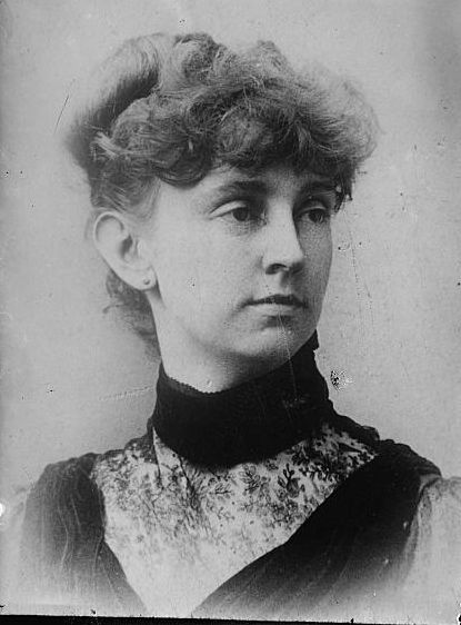 Kate Douglas Wiggin, American writer